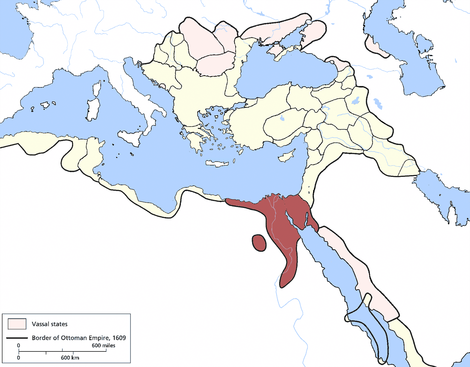 Egypt Eyalet, Ottoman Empire (1609). Source: Encyclopedia of the Ottoman Empire at Google Books By Gábor Ágoston, Bruce Alan Masters